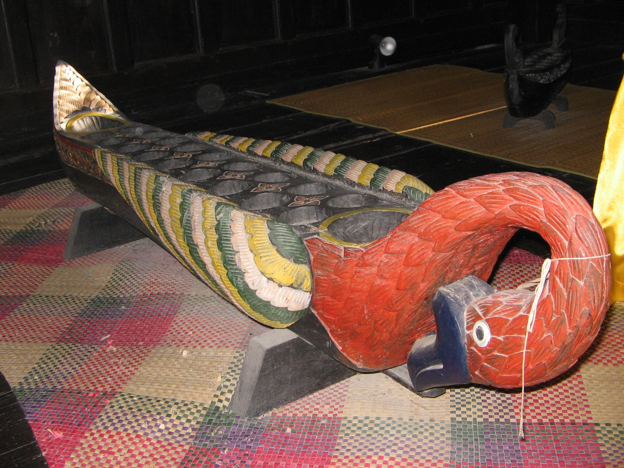 Congkak from Malaysia Nasional Muzium, shaped like a swan feeding. A type of mancala game. Previously release under Creative Commons Attribution-Share Alike 2.0